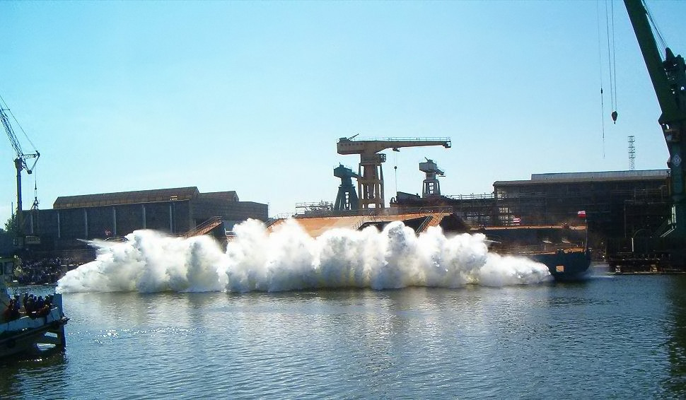 Hull launching in Northern Shipyard in Gdansk, Poland.